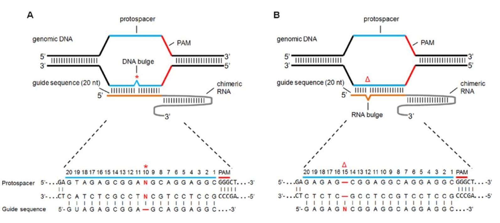 figure explaining DNA and RNA bulge in relations to CRISPR-cas9 off-target effects.